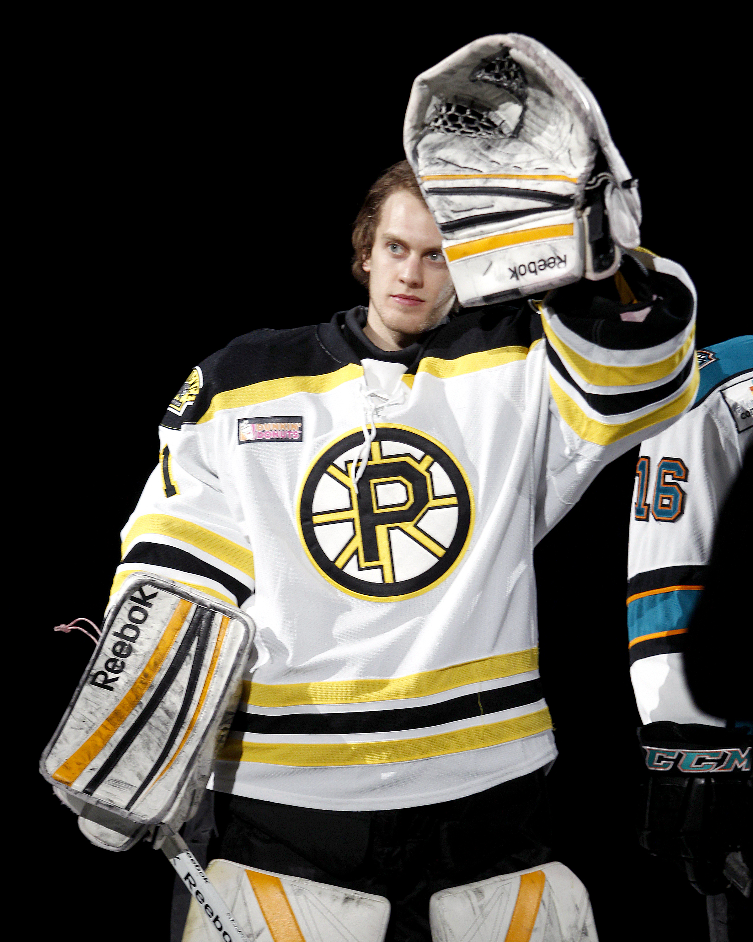 Svedberg2 American Hockey League (AHL). 2013 All-Star Skills Competition. Taken on January 27, 2013.